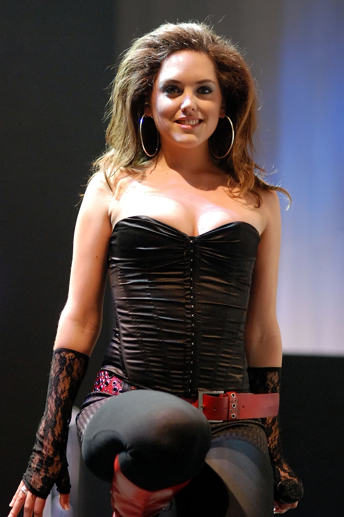 Tialda van Slogteren from the band "Room 2012"